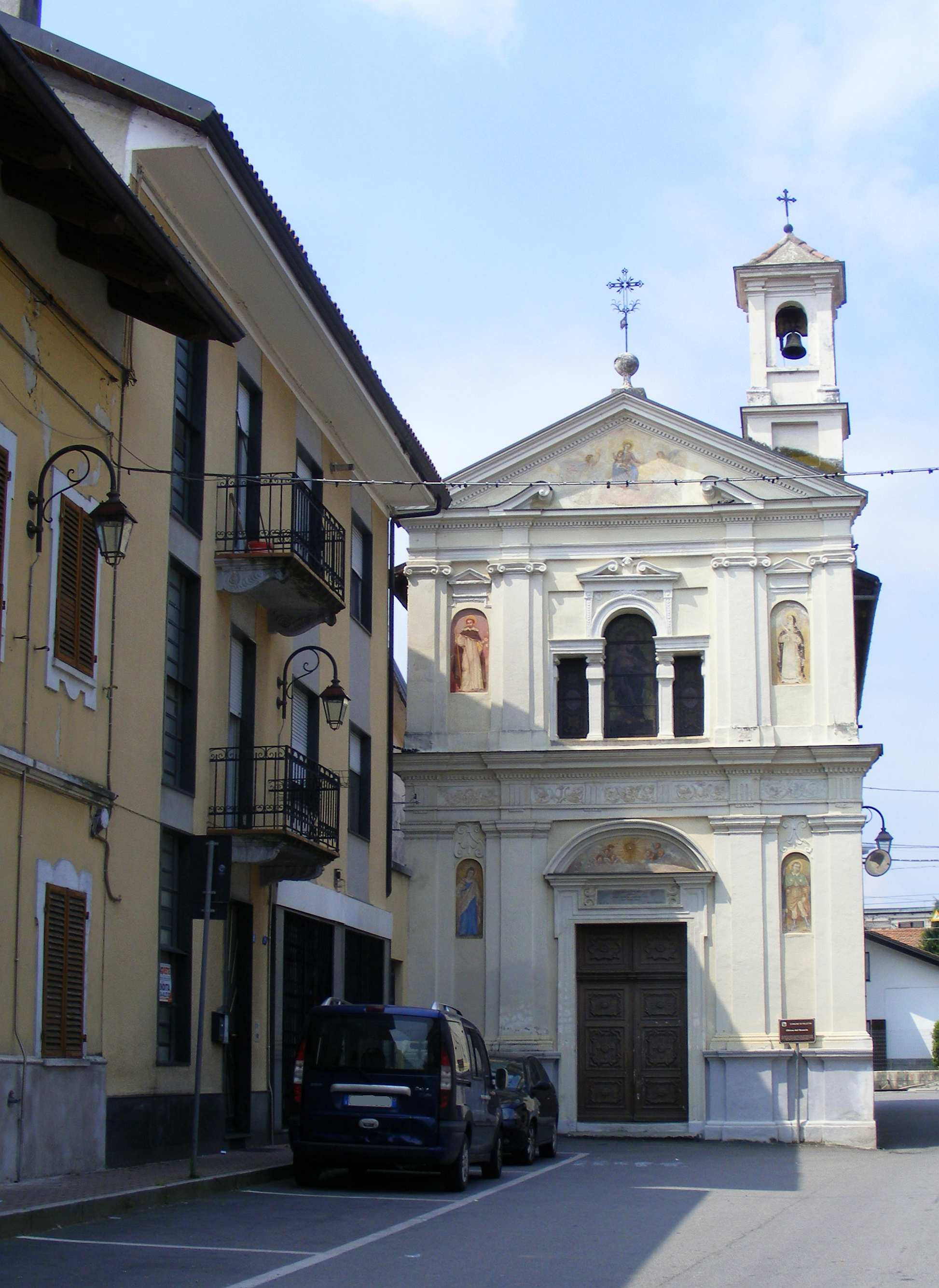 Feletto (TO, Italy): Rosario church